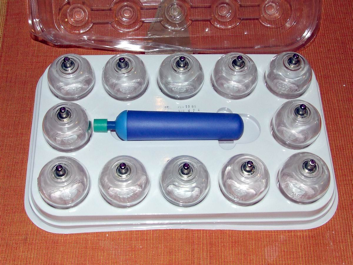 Vacuum suctions